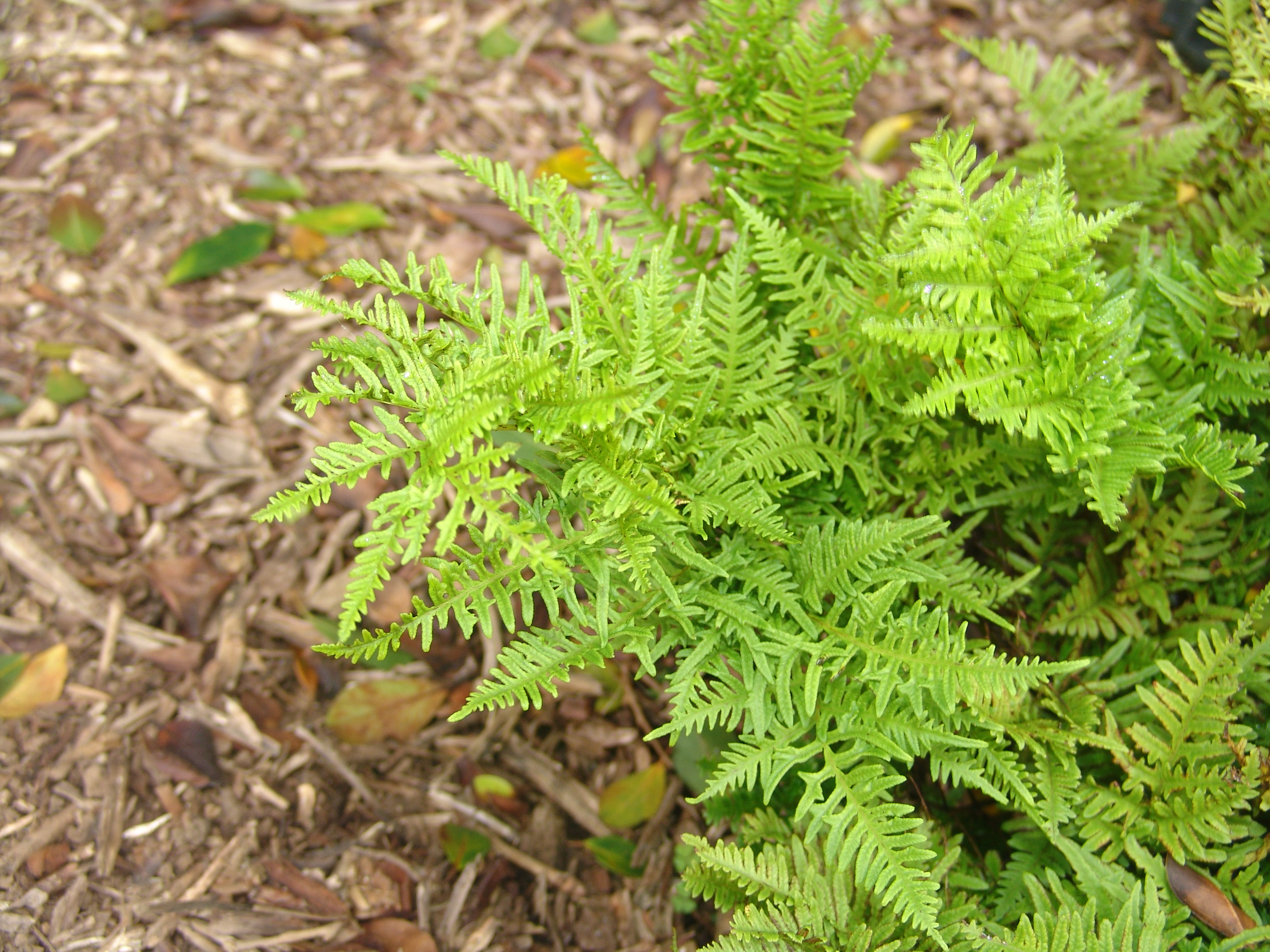 Pteris adscensionis. Ascension endemic Plant. Found on Green Mountain. IUCN status-endangered. Specimens being grown by Ascension Island Conservation department.